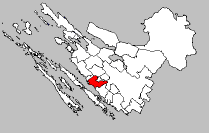 Location of municipality inside Zadar County